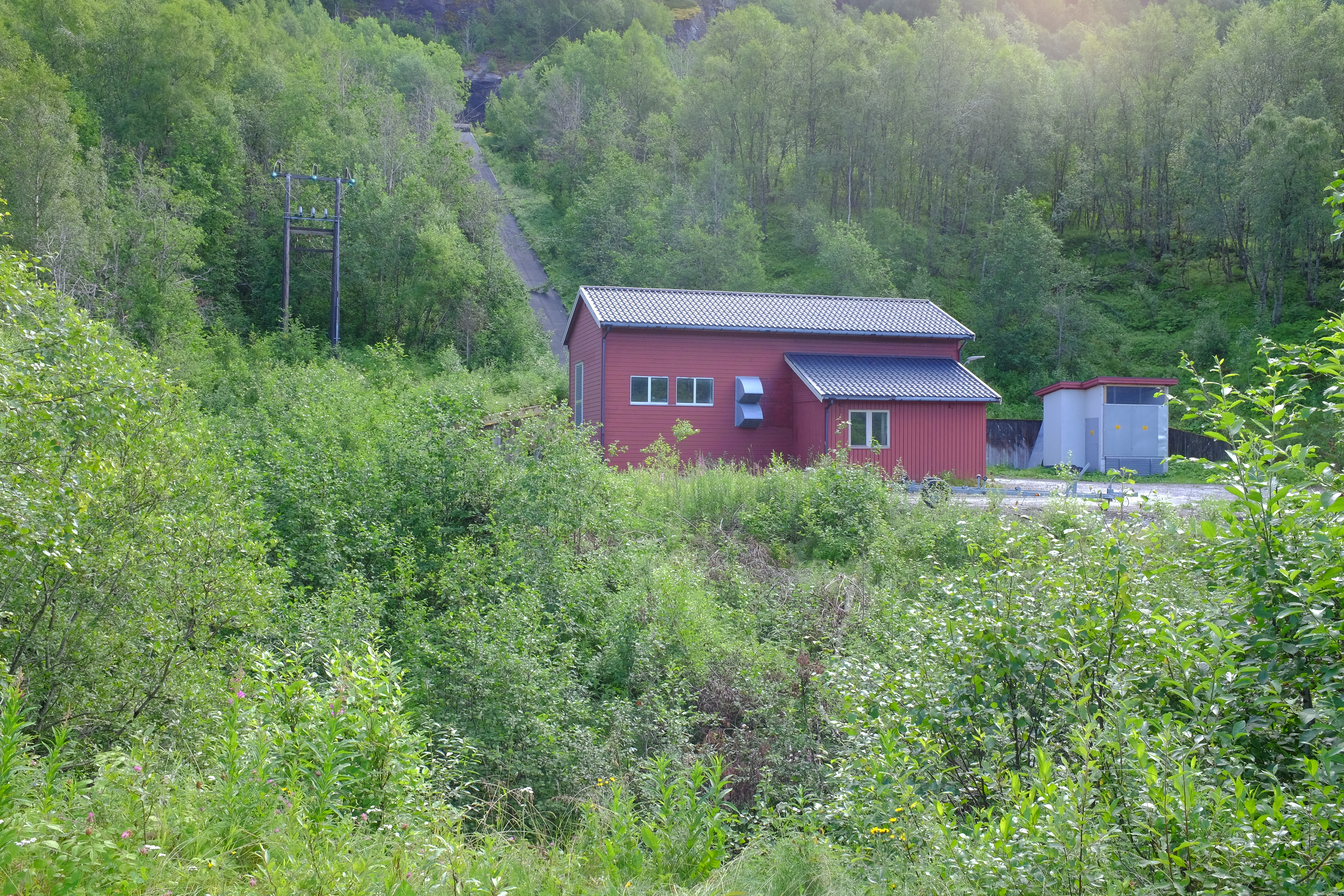 Kvarv hydropower plant seen from Europe road 6, Kvarv, Sørfold, Nordland, Norway. The power plant utilizes a waterfall from the magazine at Rismålsvatnet lake.